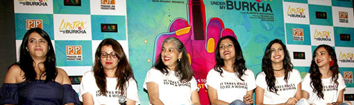 Ekta Kapoor, Alankrita Shrivastava, Ratna Pathak, Konkona Sen Sharma, Aahana Kumrah & Plabita Borthakur at media meet of the film Lipstick Under My Burkha